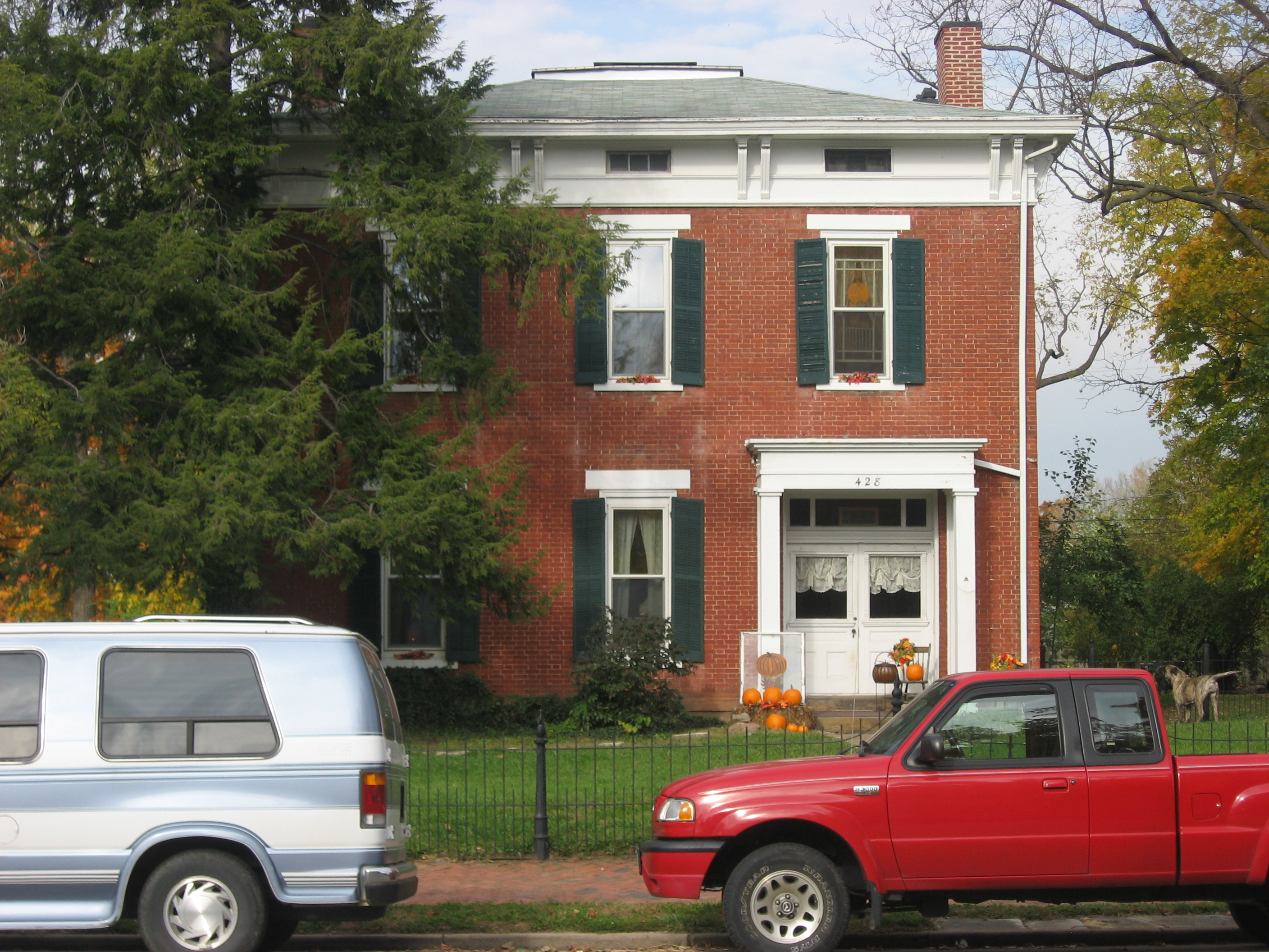 Front of the Matthew McCrea House, located at 428 E. Main Street (U.S. Route 22 and State Route 56) in Circleville, Ohio, United States. Built in 1840, the house is listed on the National Register of Historic Places.